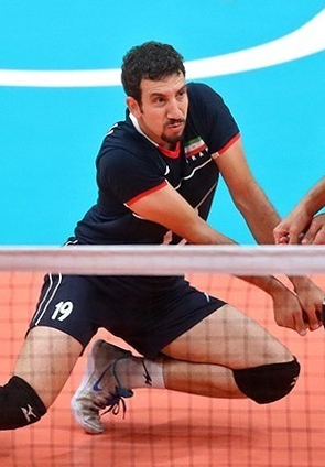 Volleyball, match between Iran and Egypt at the Olympic Games in 2016